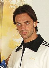 Nicola Legrottaglie